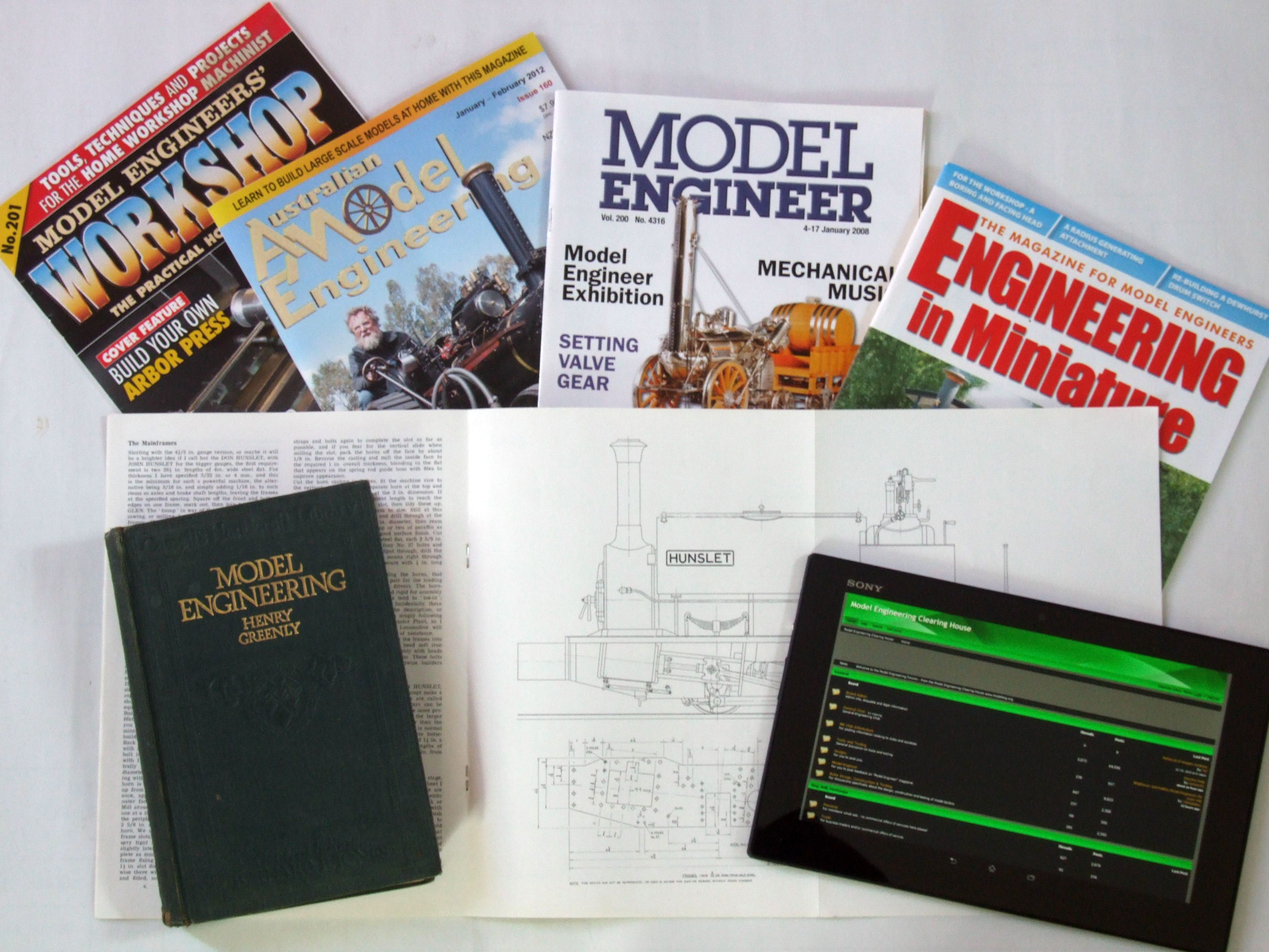 Various magazines, books and internet material that contain information useful to model engineers. Model_engineering